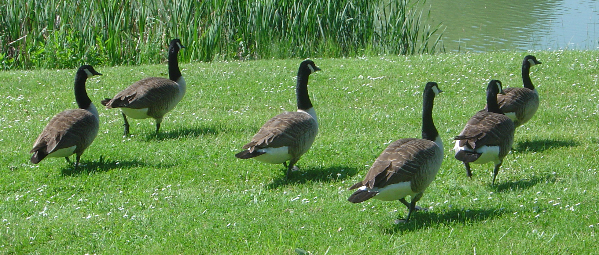 Branta canadensis around the lake of École Polytechnique